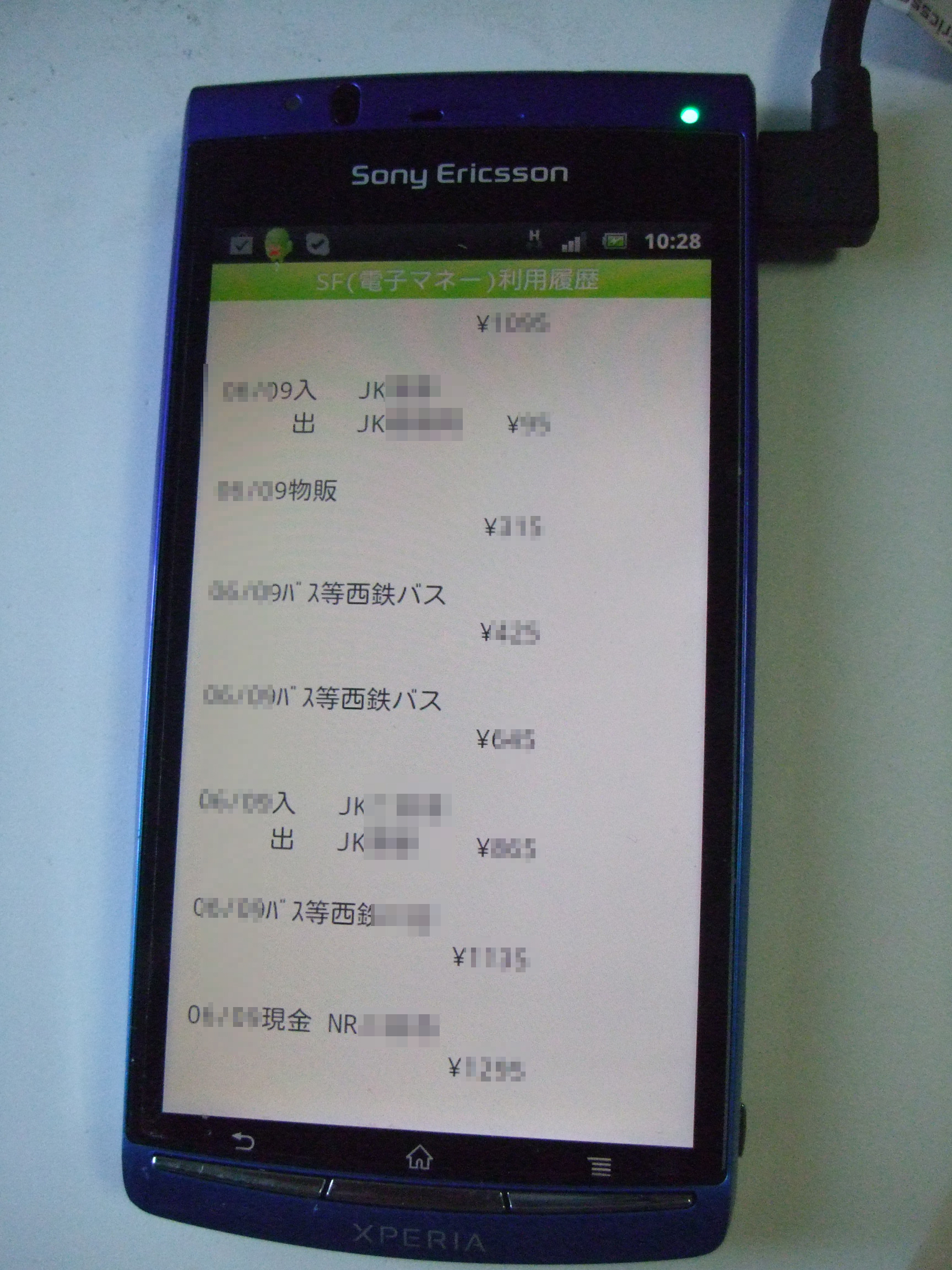 JR East japan Rail Company "Mobile Suica"For SmartPhone(This photo Phone is SONY ERRICSON SO-02C).